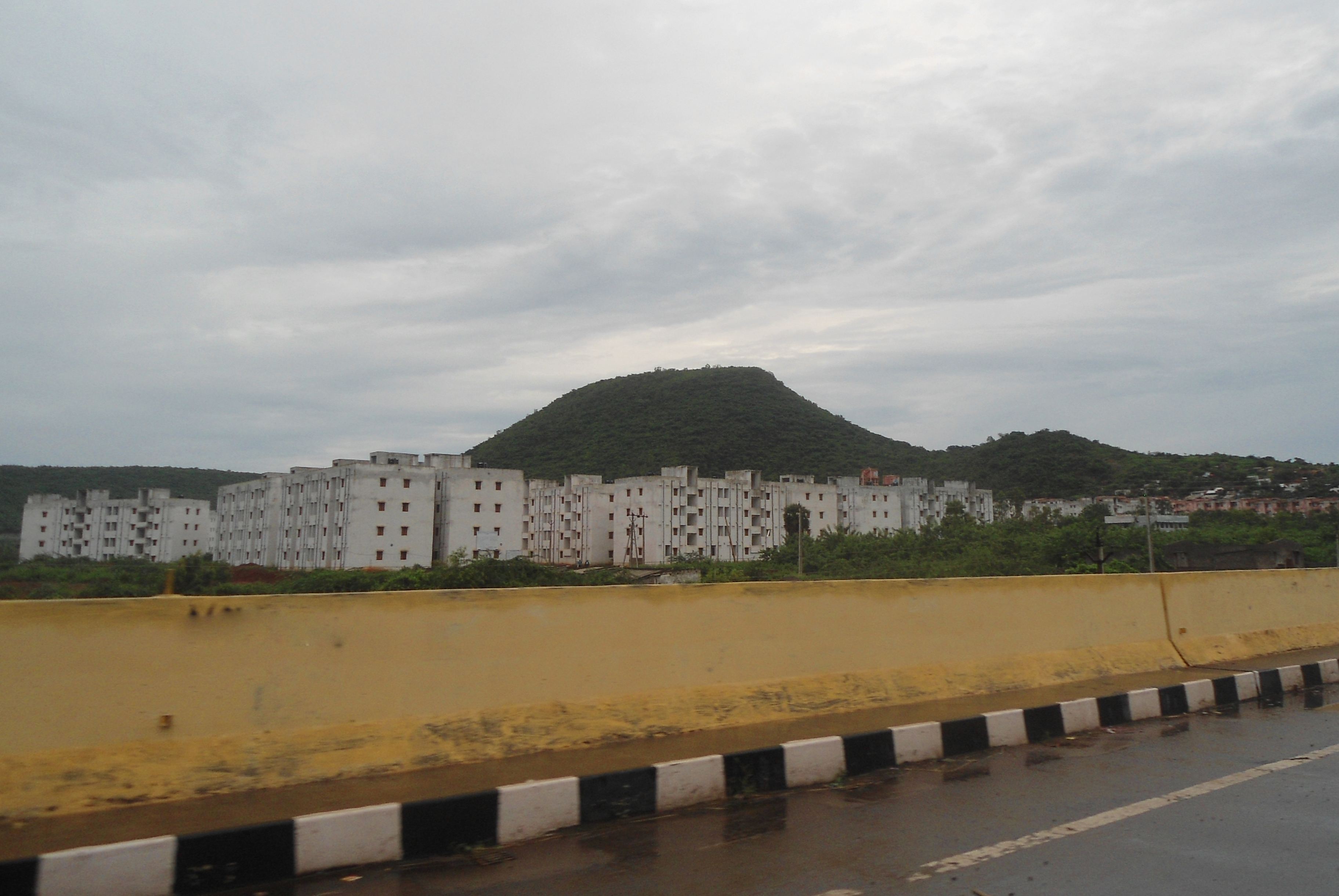 View of a colony at Marikavalasa, Visakhapatnam